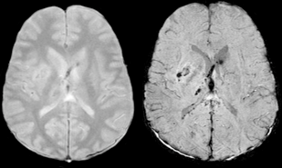 Comparison of conventional gradient echo image (GRE) with TE=20 ms (left) and susceptibility weighted image (SWI) with TE=40 ms (right) collected at 1.5 Tesla. Subject shows hemorrhage from trauma.